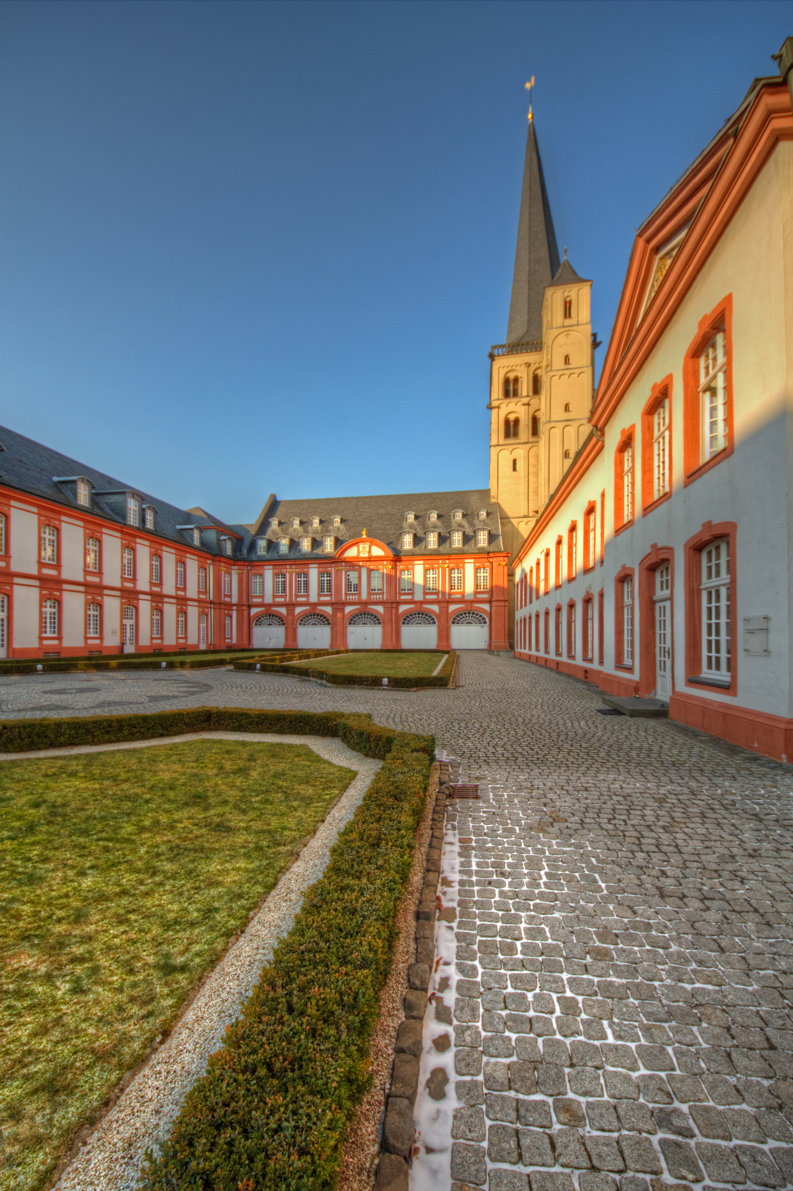 The Brauweiler Abbey in Pulheim, North Rhine-Westphalia